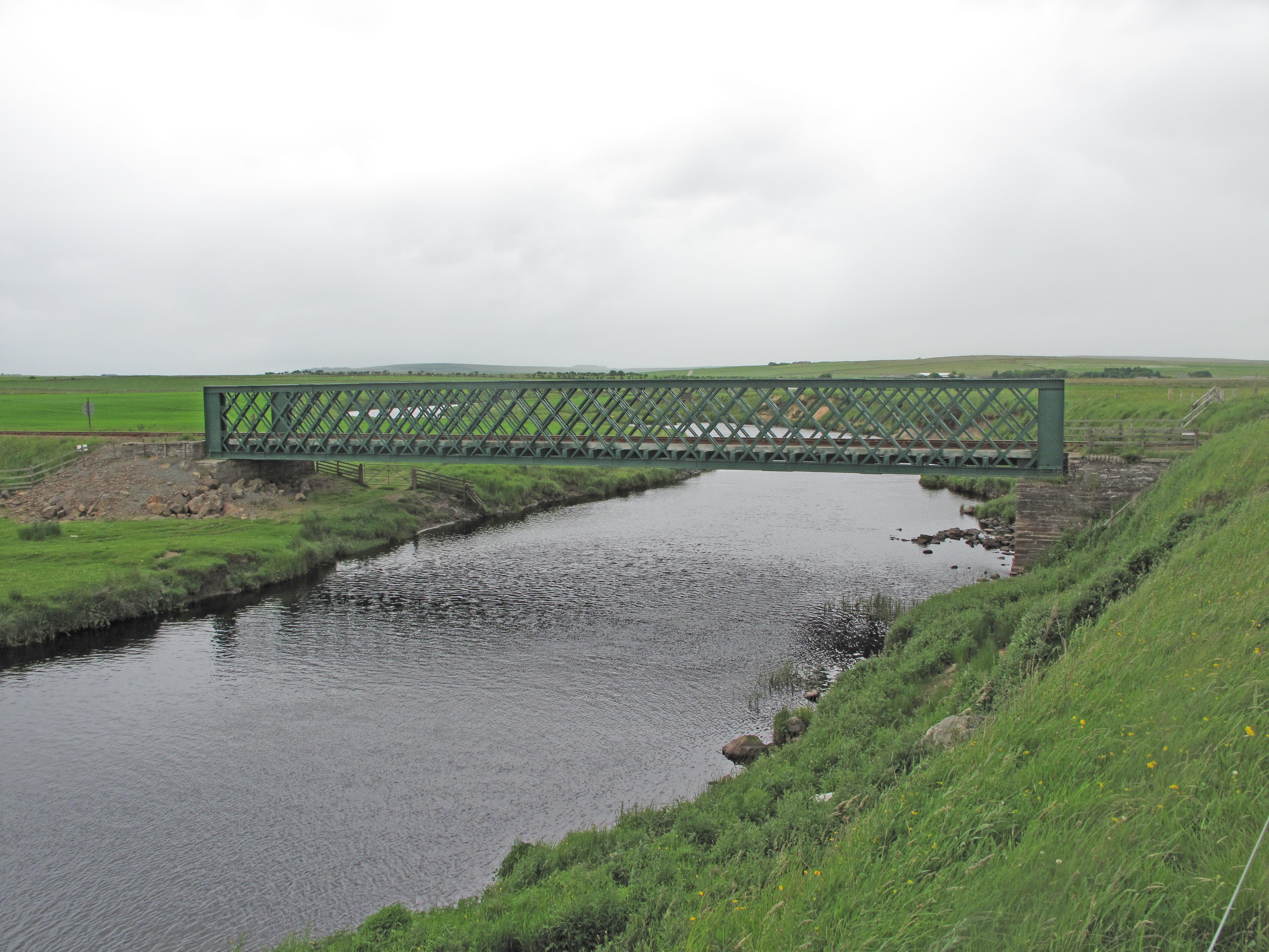 Town lattice girder bridge on Far North Railway near Halkirk, Caithness